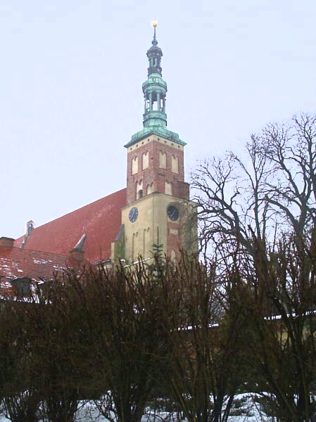 Church in Lubiń, Poland pl